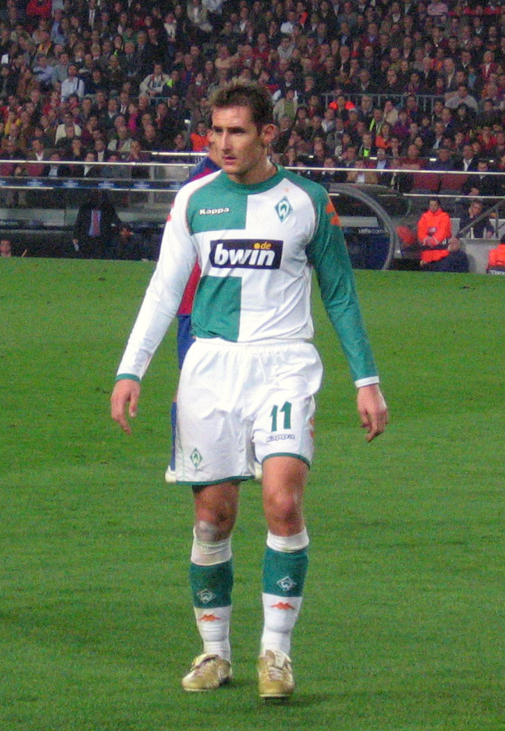 Miroslav Klose, SV Werder Bremen's player, during the match FC Barcelona – SV Werder Bremen.